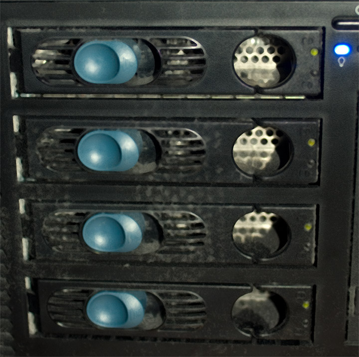 Front view (cropped) of four hard disks forming a RAID array. This array is inside a desktop system, using a common controller. The blue levers allow to remove/replace a single harddisk while the system keeps running.